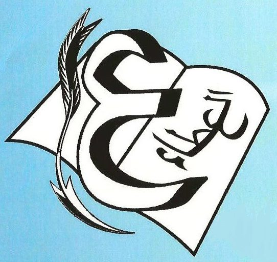 atta logo